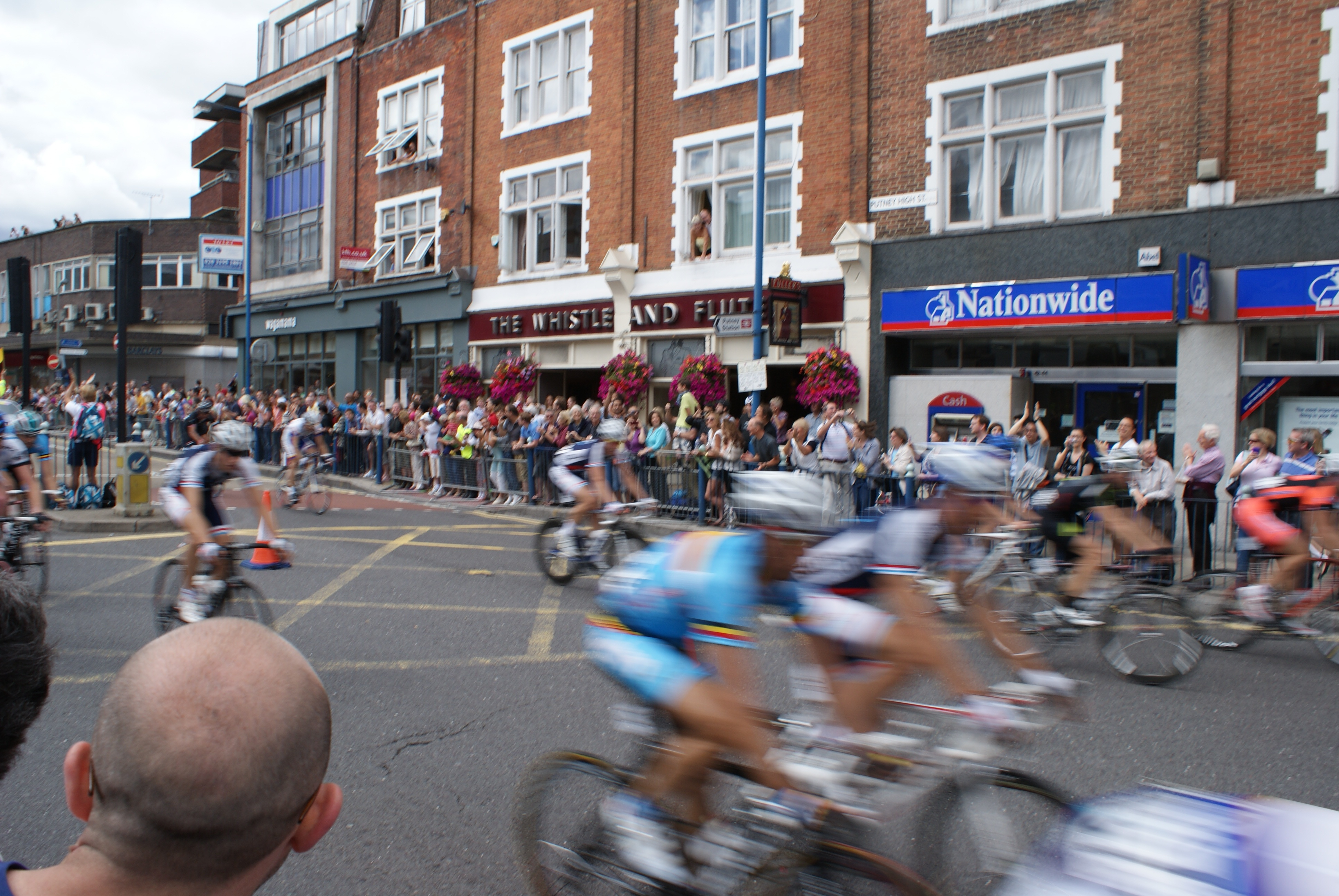 Peloton going through Putney